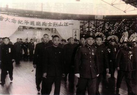 Chiang Kai-shek in Memorial of Yijiangshan Islands Battle,1956